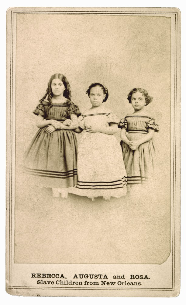 Rebecca, Augusta, and Rosa. Slave children from New Orleans